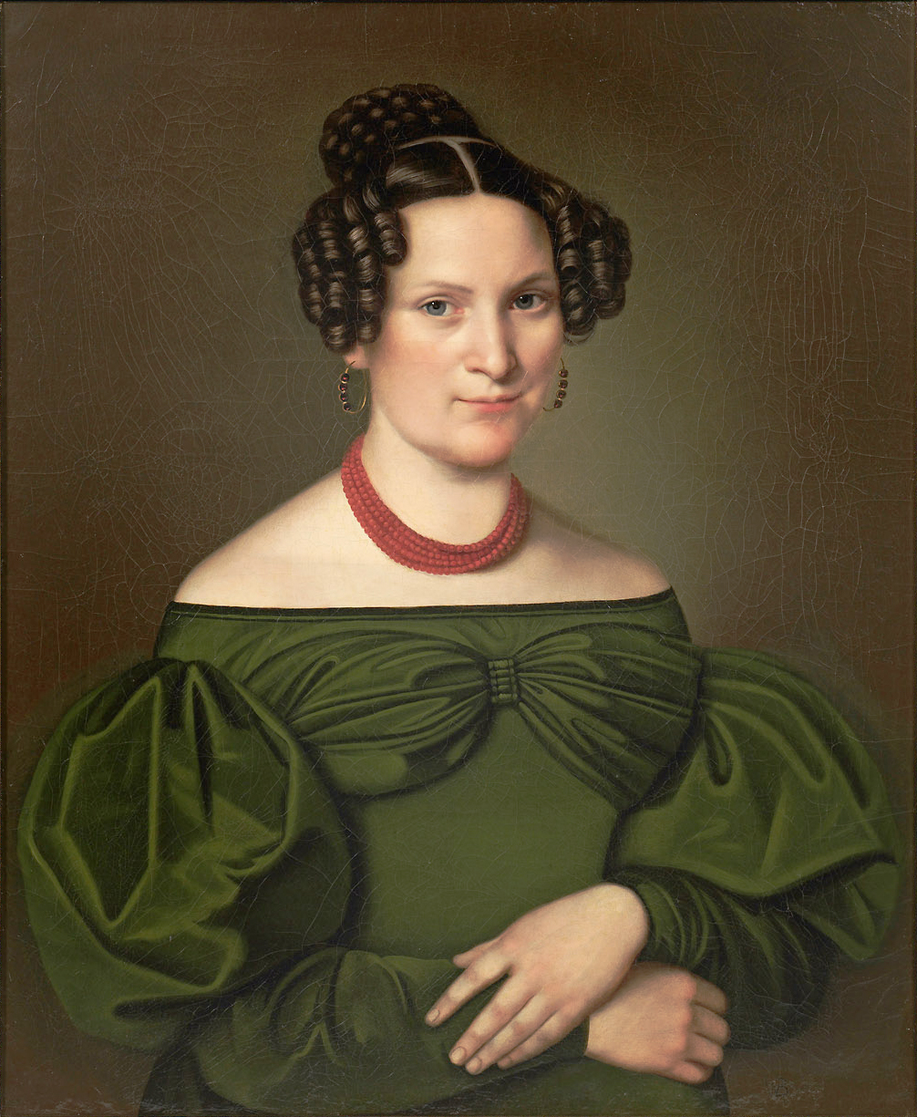 Portrait der Bergrätin Caroline Amalie Felicitas Zimmermann geb. Kleemann